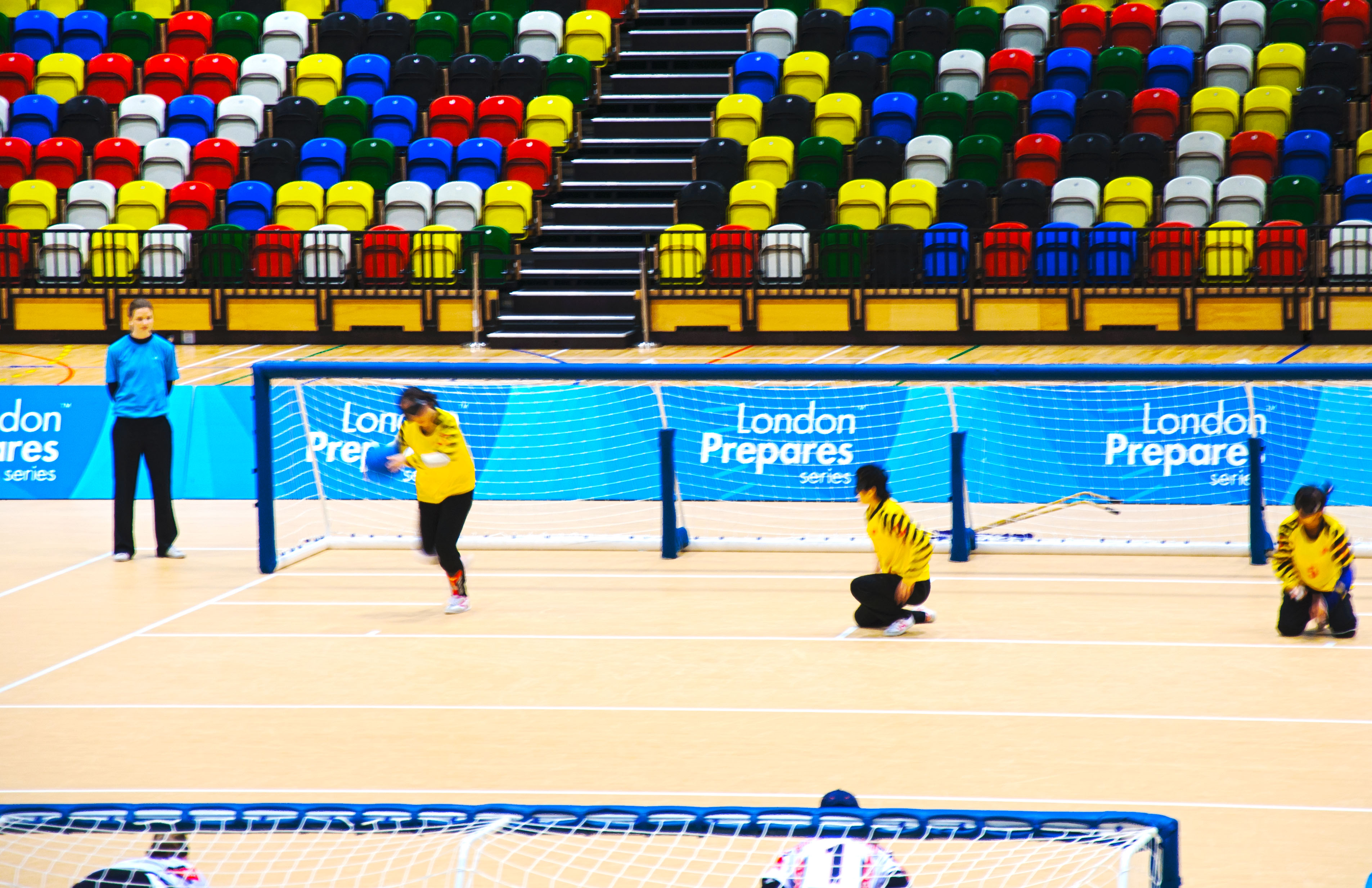 Goalball (China vs US)- London prepares series